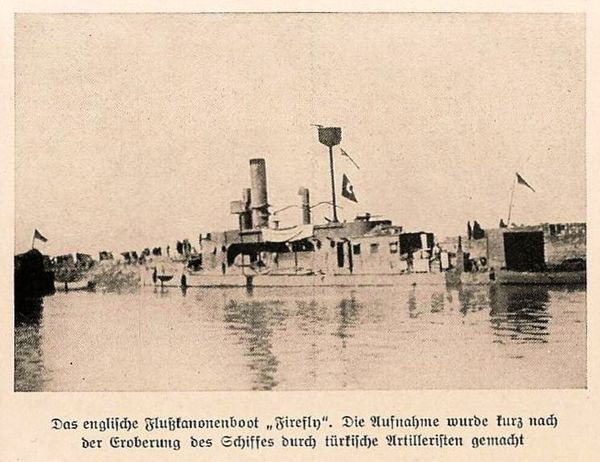 Ottoman river gunboat Selman-ı Pak (ex-HMS Firefly)